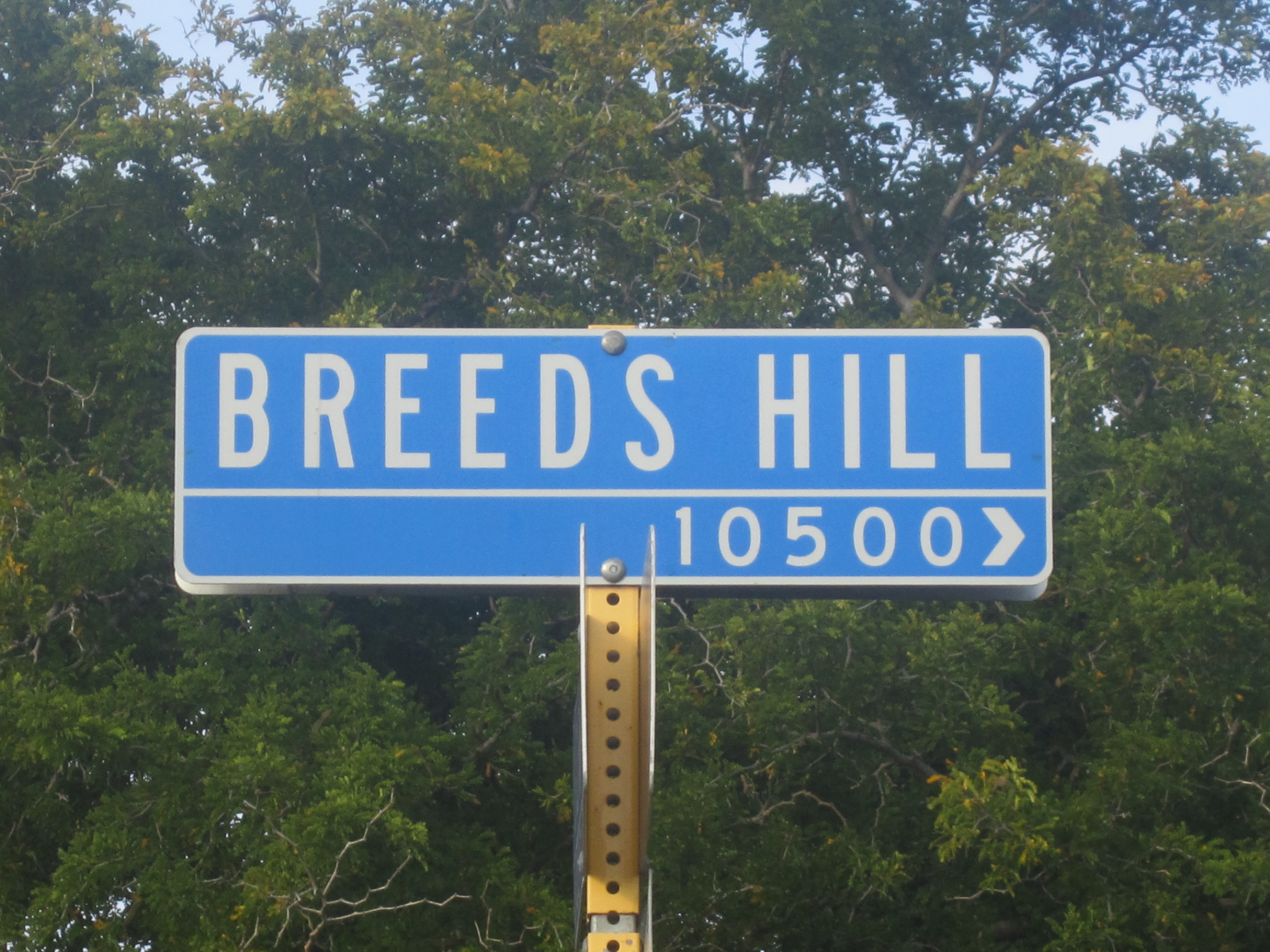 I took photo of street sign with Canon camera.